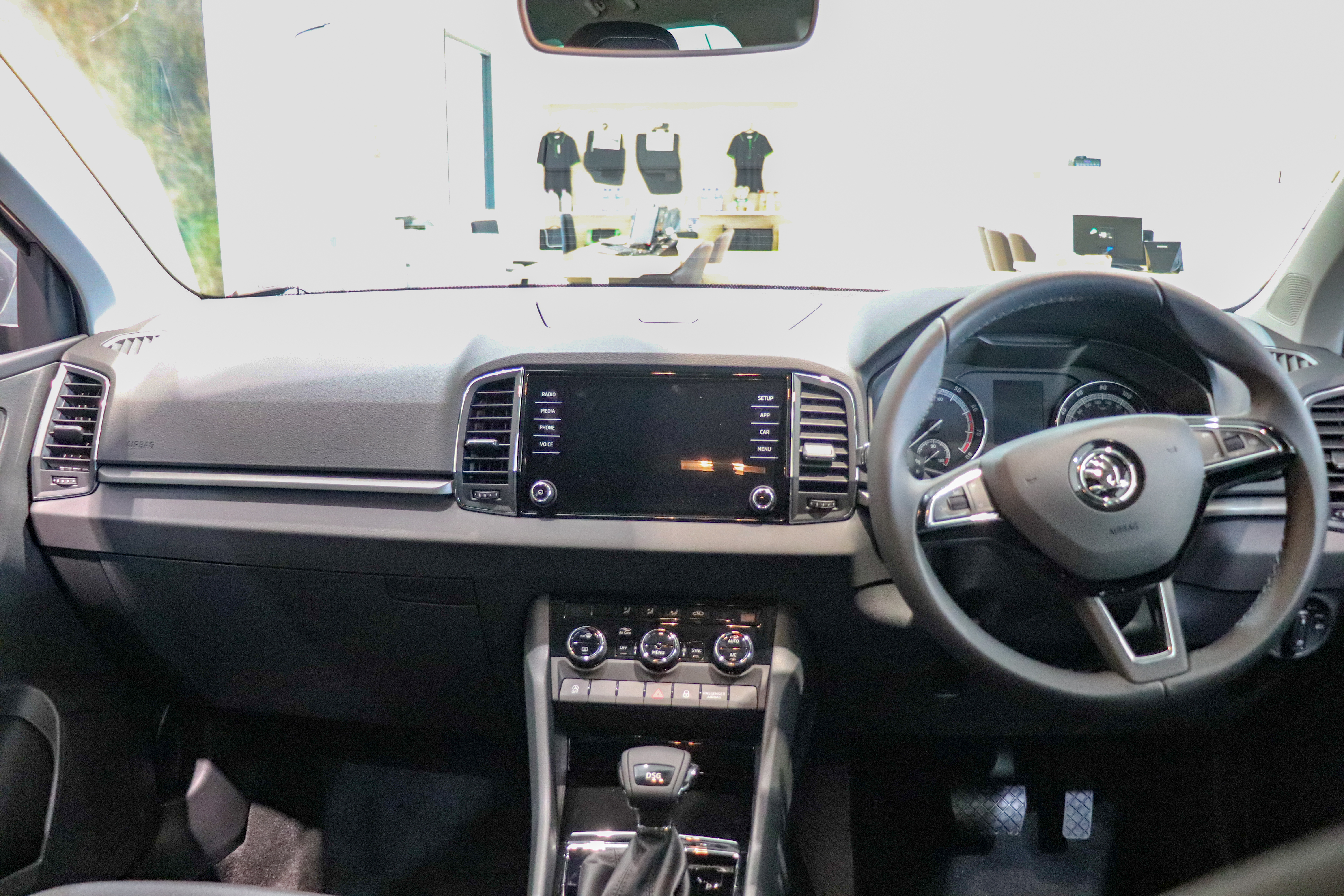 2018 Skoda Karoq Interior Taken in Sydnam, Leamington Spa